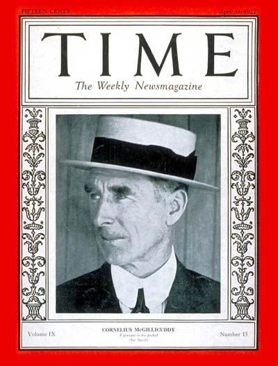 Connie Mack (Cornelius McGillicuddy), baseball player & manager April 11, 1927 cover of Time Magazine